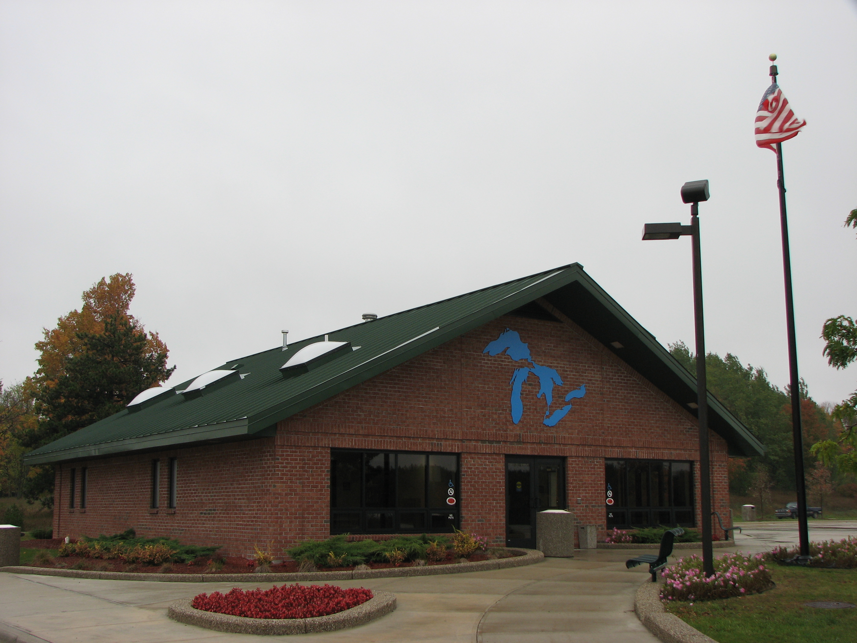 Cadillac Rest Area 306, Clam Lake Township, Michigan